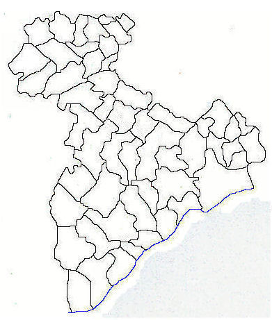 Location map of Giurgiu County with limits of communes